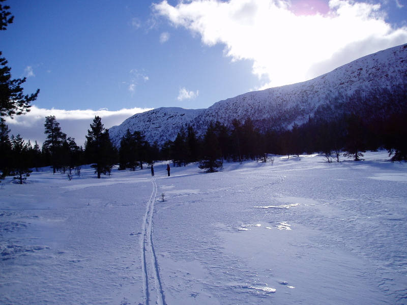 Rondane by winter